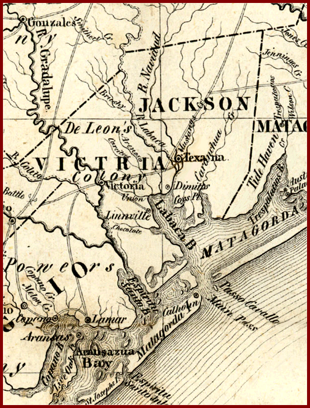 Section from an 1841 map showing the abandoned location of Linnville Texas